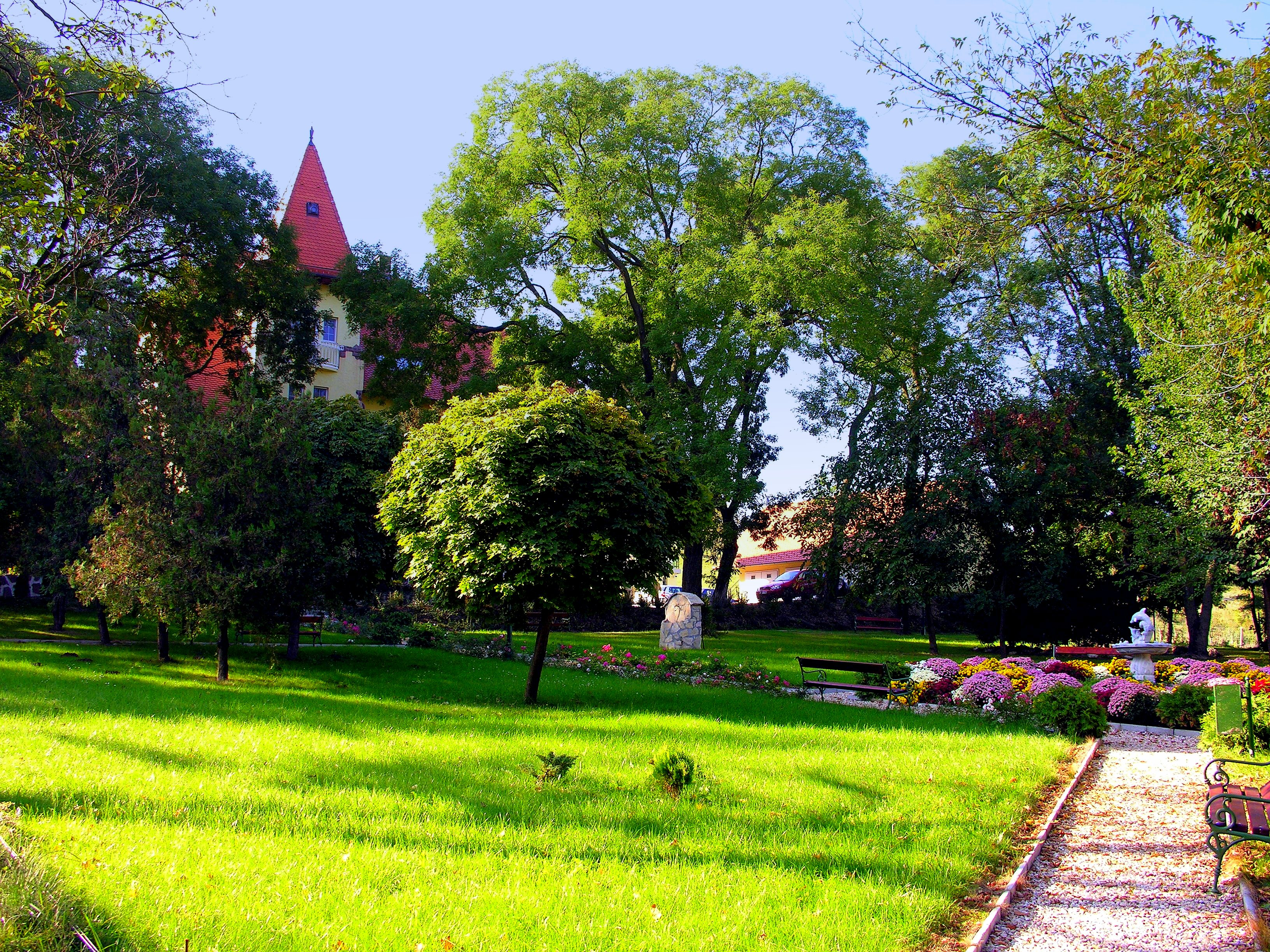 A high class Hotel Establishment carrying the inherited name of the former owners of the Leather Factory.